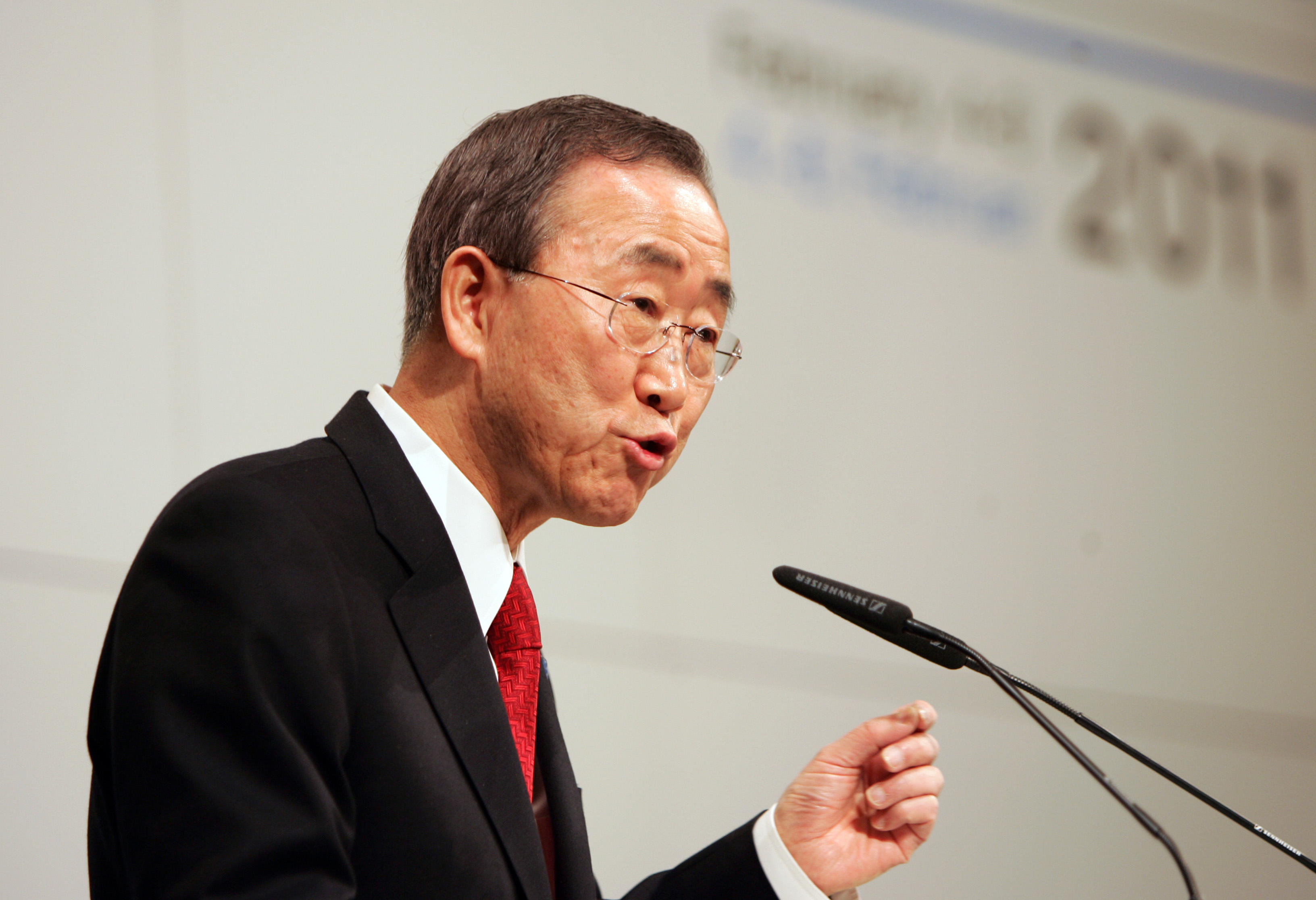 47th Munich Security Conference 2011: Ban Ki-moon, Secretary General, United Nations, during his speech on Saturday.